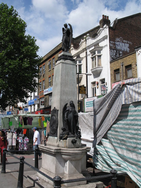 Memorial to Edward VII, Whitechapel Road, E1